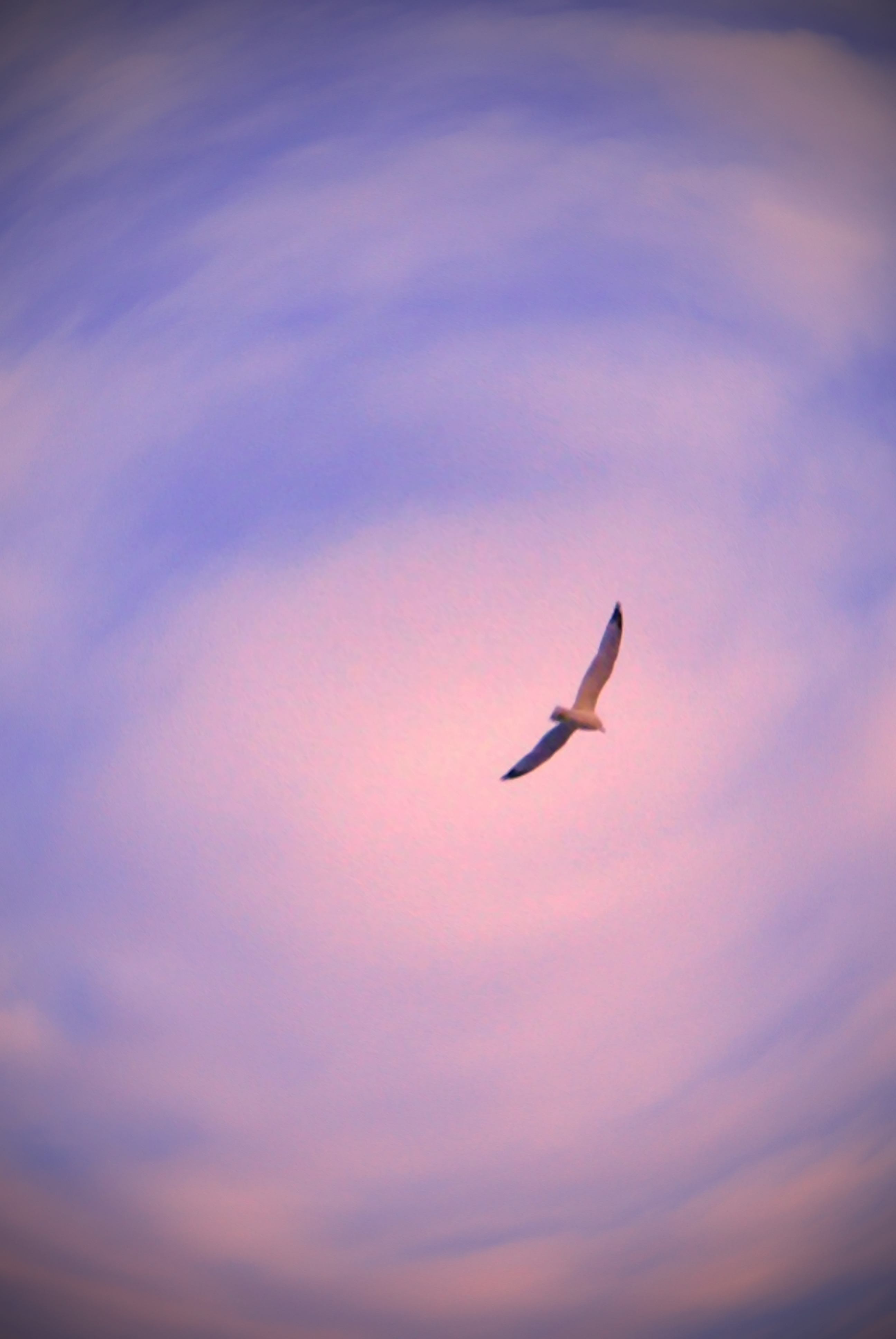 Johnathan Livingston Segull of Richard Bach, Let us trying again! Freedom!